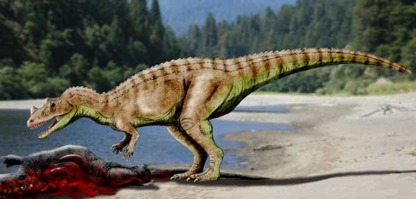 Ceratosaurus nasicornis restoration. Matches proportions shown in Gregory S. Paul (The Princeton Field Guide to Dinosaurs, 2010, p. 84)